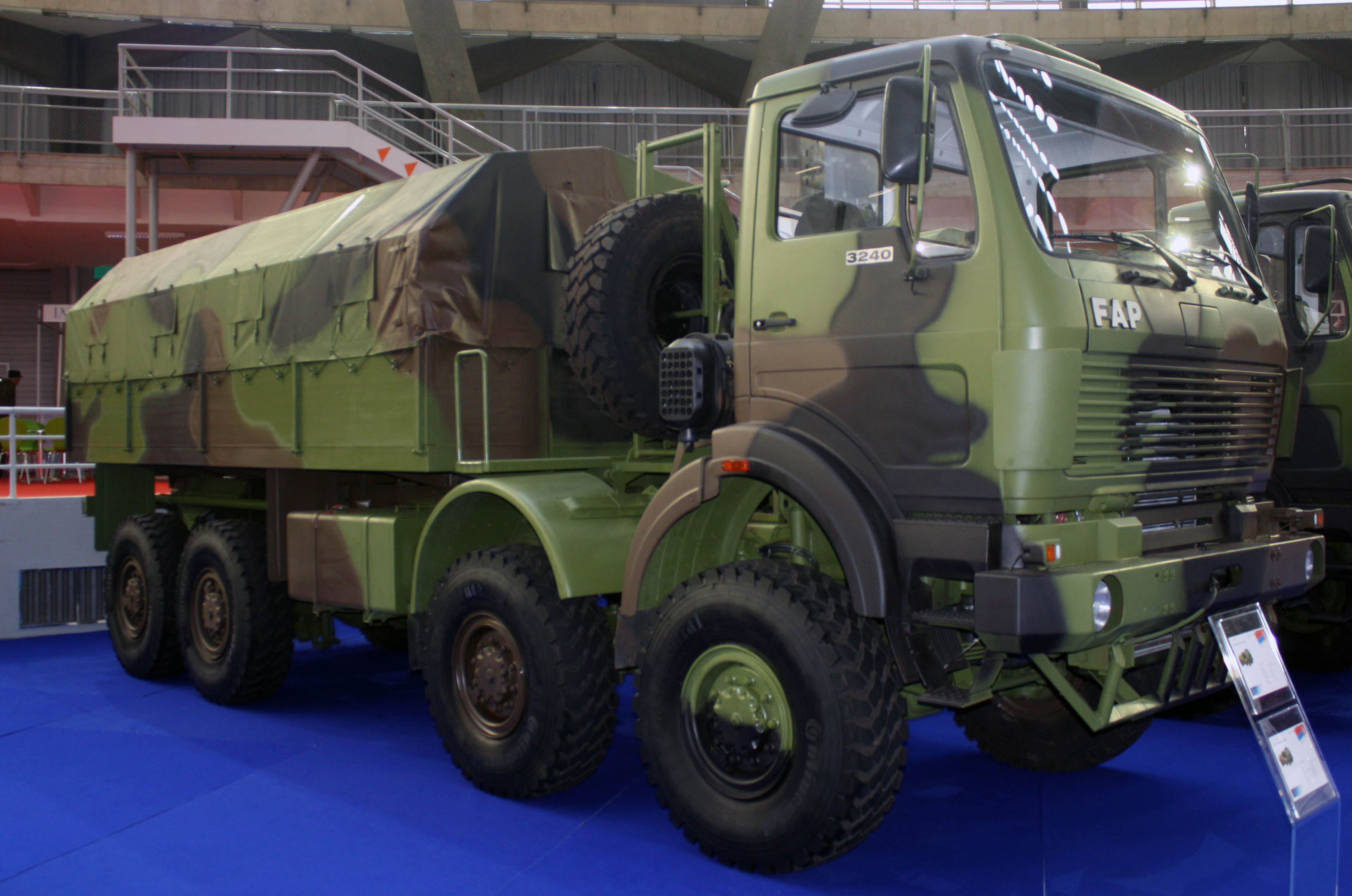 New FAP 3240 8x8 heavy military truck of Serbian Army on display at "Partner 2011" military fair.